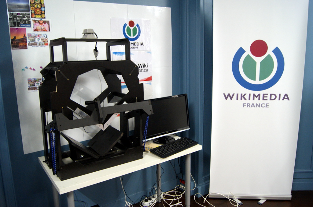 Bookscanner at wikimedia France office, Paris. Design by Daniel Reetz